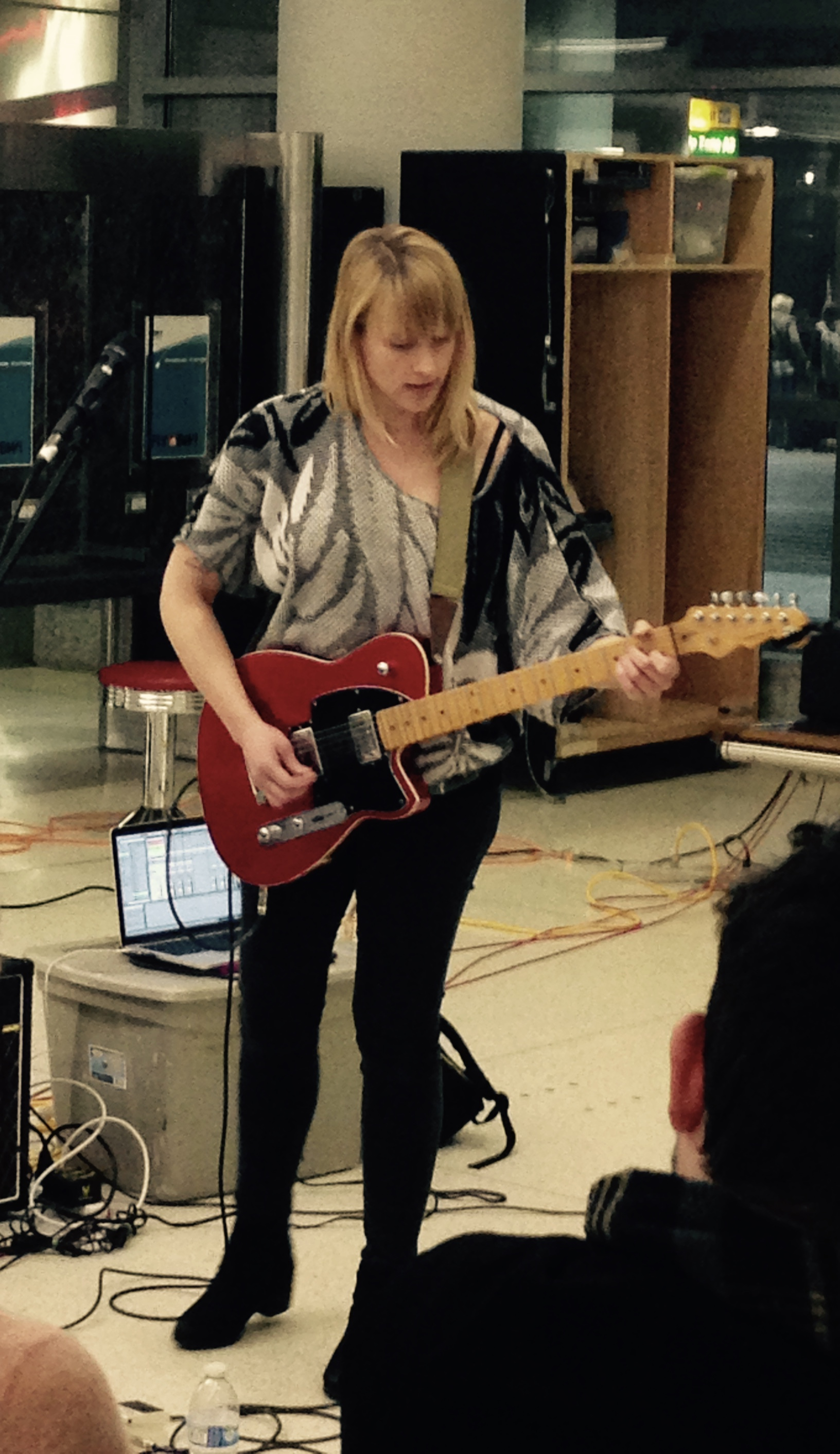 Flock of Dimes performing at BWI Marshall International Airport, Lower Level Baggage Claim on February 12, 2016.